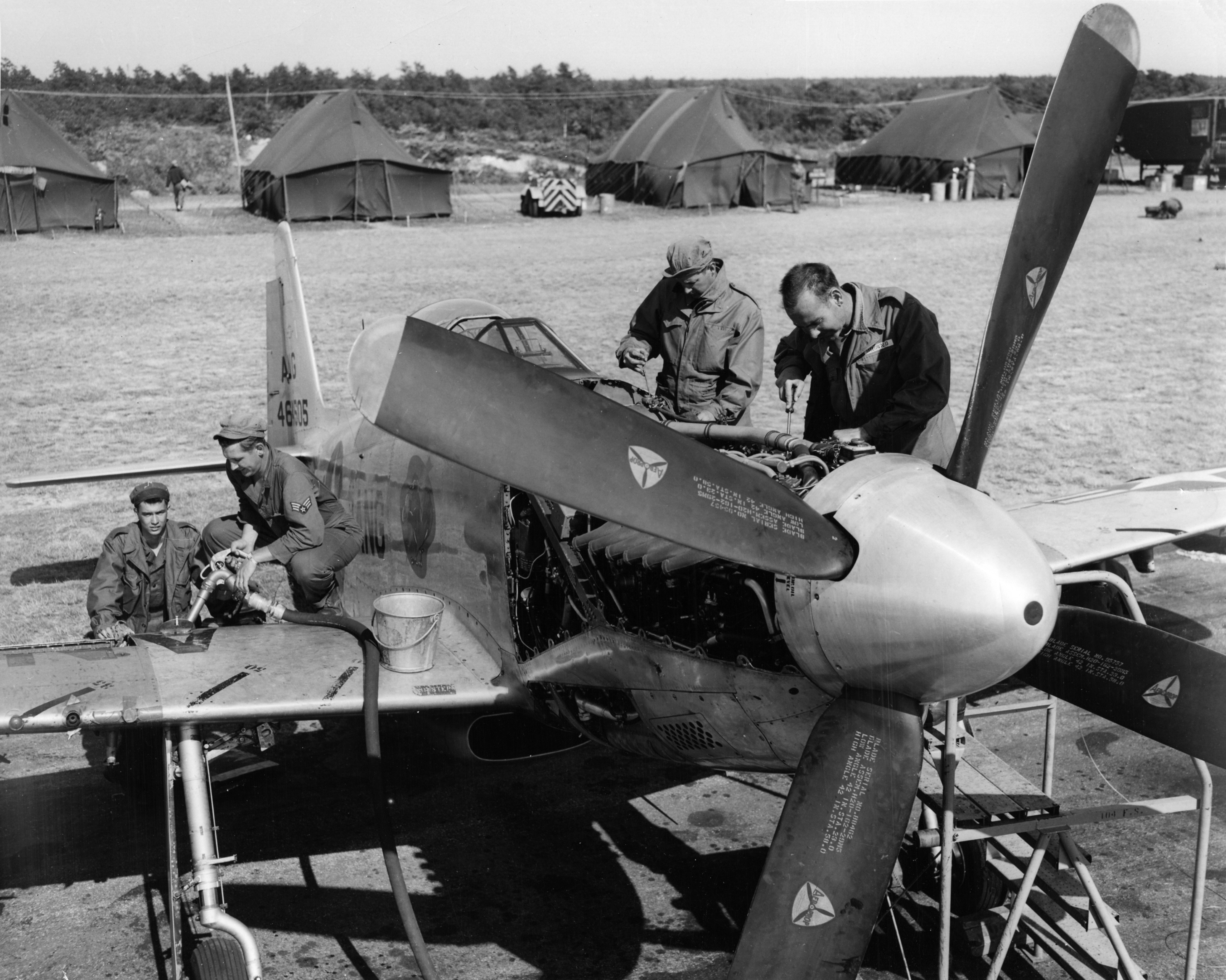 U.S. Air Force Maryland Air National Guard mechanics work on a North American P-51H-10-NA Mustang (s/n 44-64505) assigned to the 104th Fighter-Bomber Squadron during the 1954 Summer Encampment at in Massachusetts (USA). The Maryland National Guard flew F-51s from 1951 to 1955.